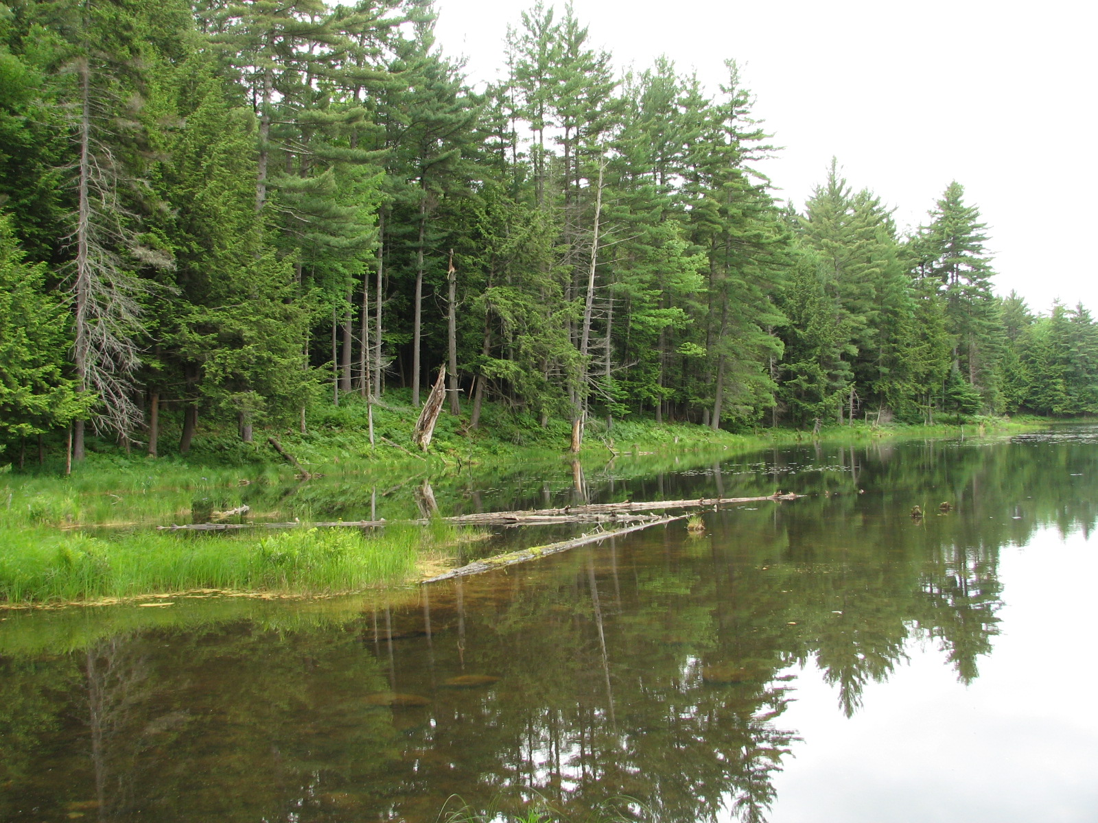 Sun shining into the water.